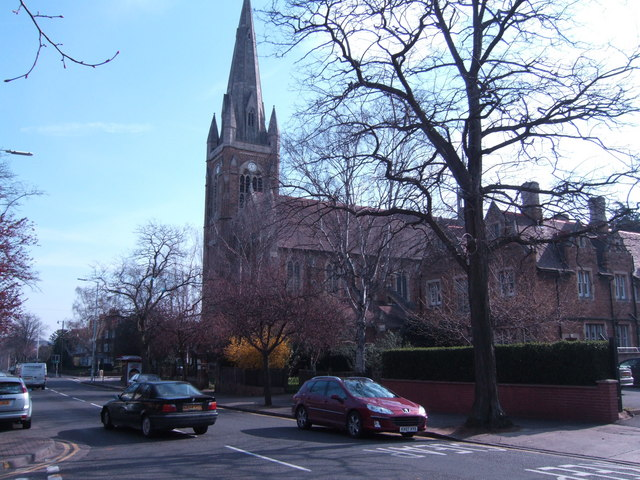 St Matthew's parish church, Kettering Road, Northampton, seen from the southwest